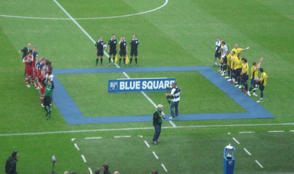 Oxford United FC and York City FC